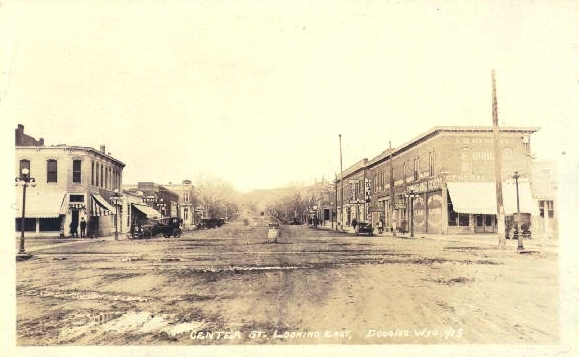 Photograph of Center St., looking east, Douglas, Wyoming, est. 1923.